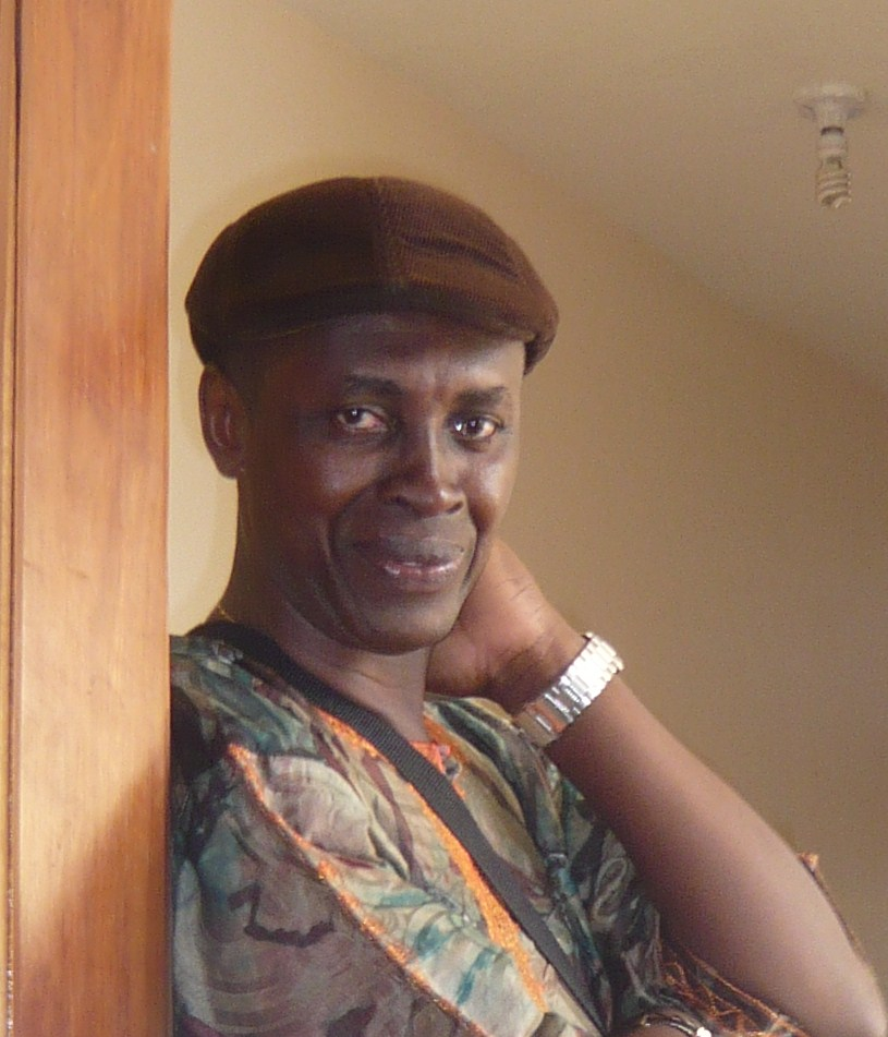 Esperantist from Ivory Cost